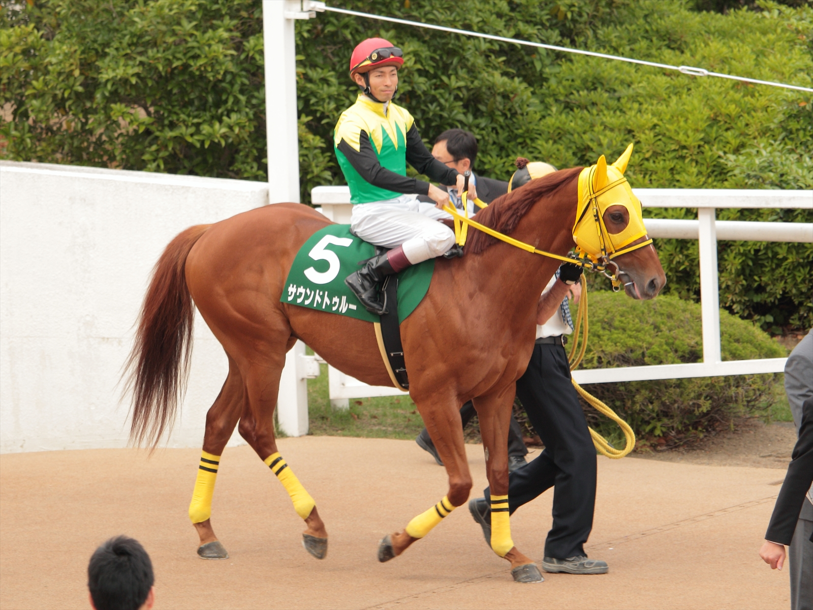 Sound True (Racehorse of Japan).